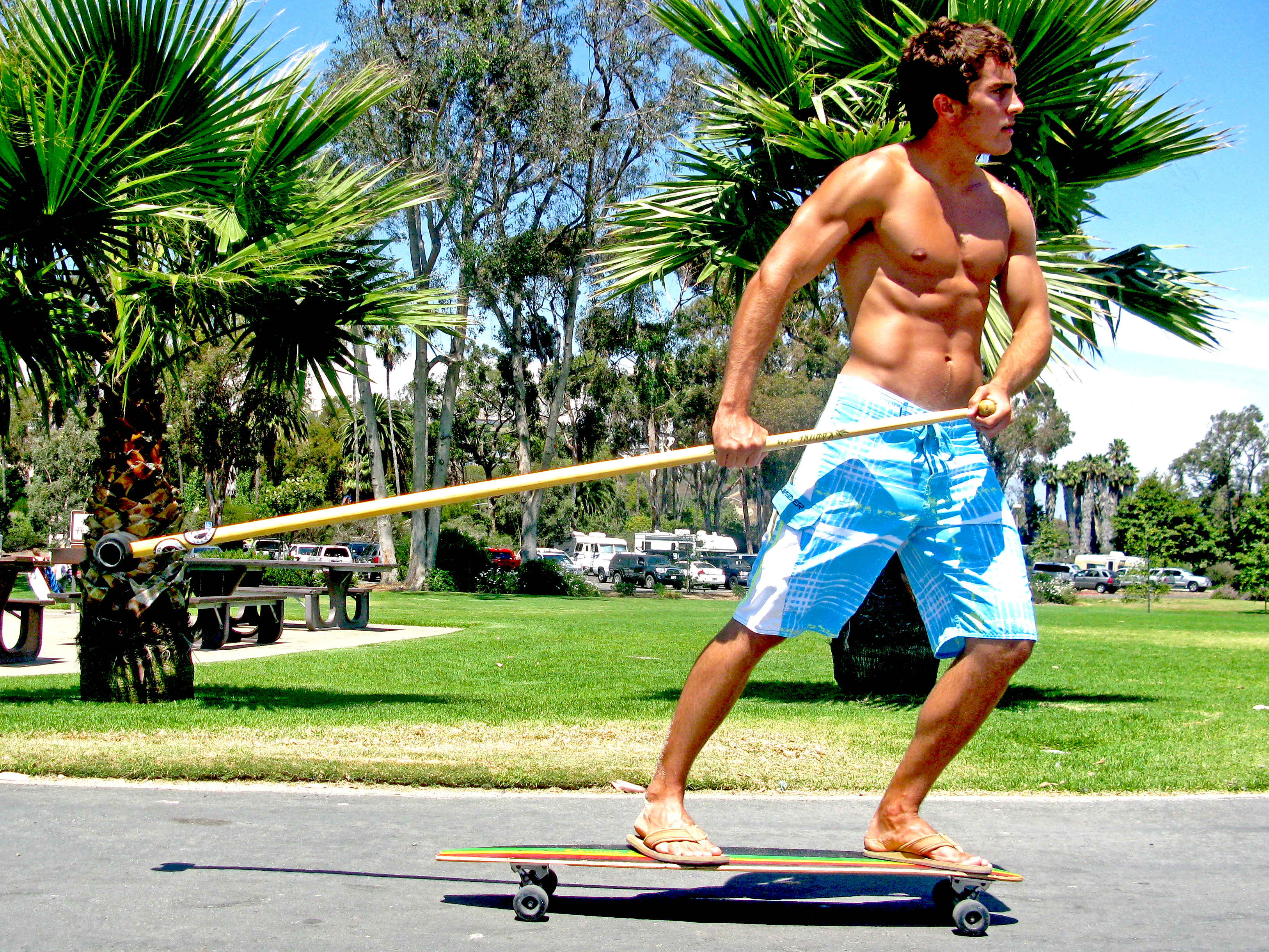 Longboarding with the Kahuna Big Stick